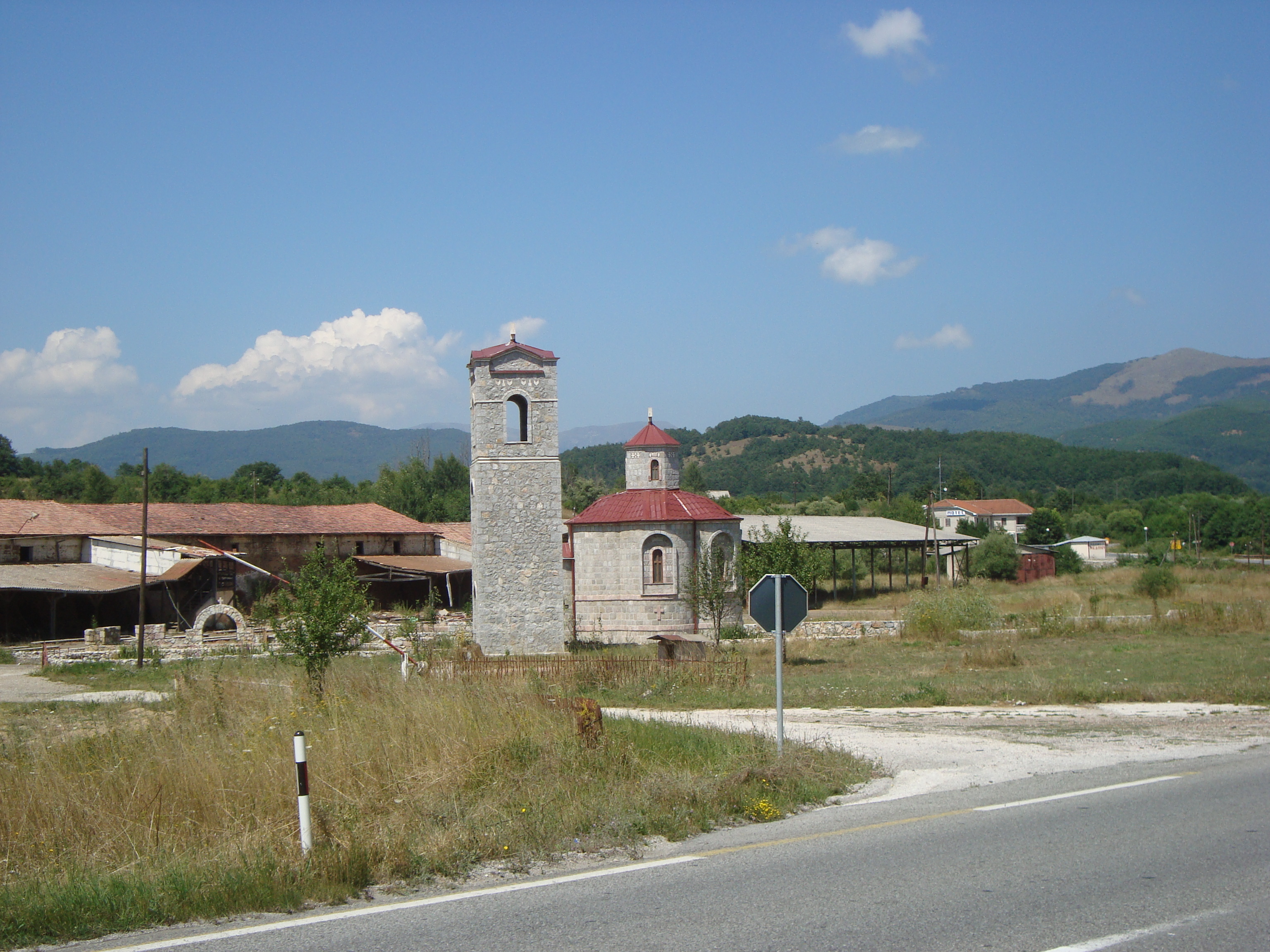 St. Demetrius Church in Arbinovo, Ohrid, Macedonia.